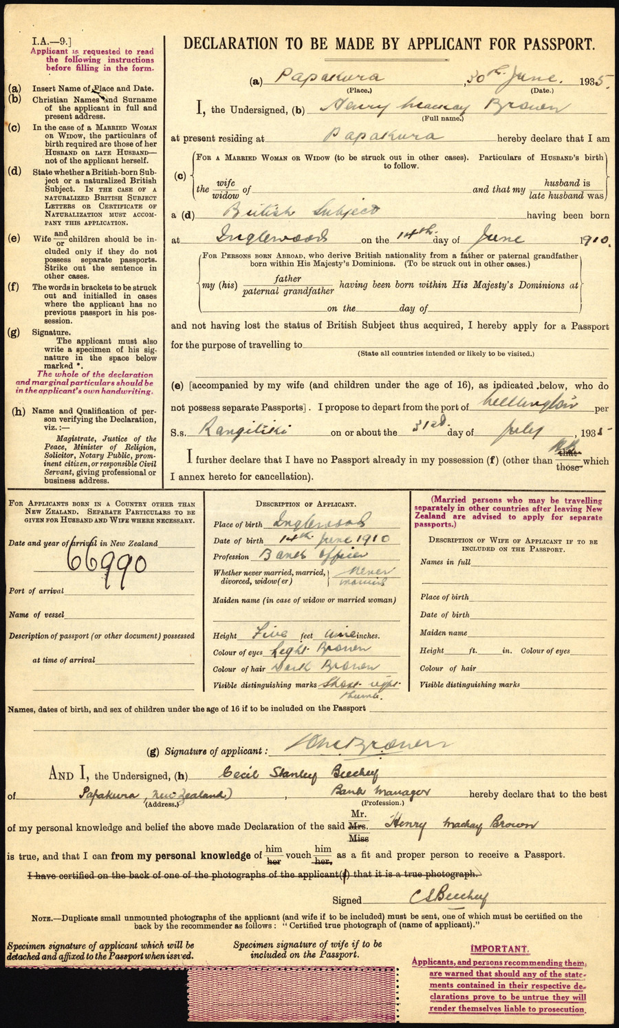 Archives New Zealand Reference: ACGO 8333 IA1 1350 / 15/11/59182